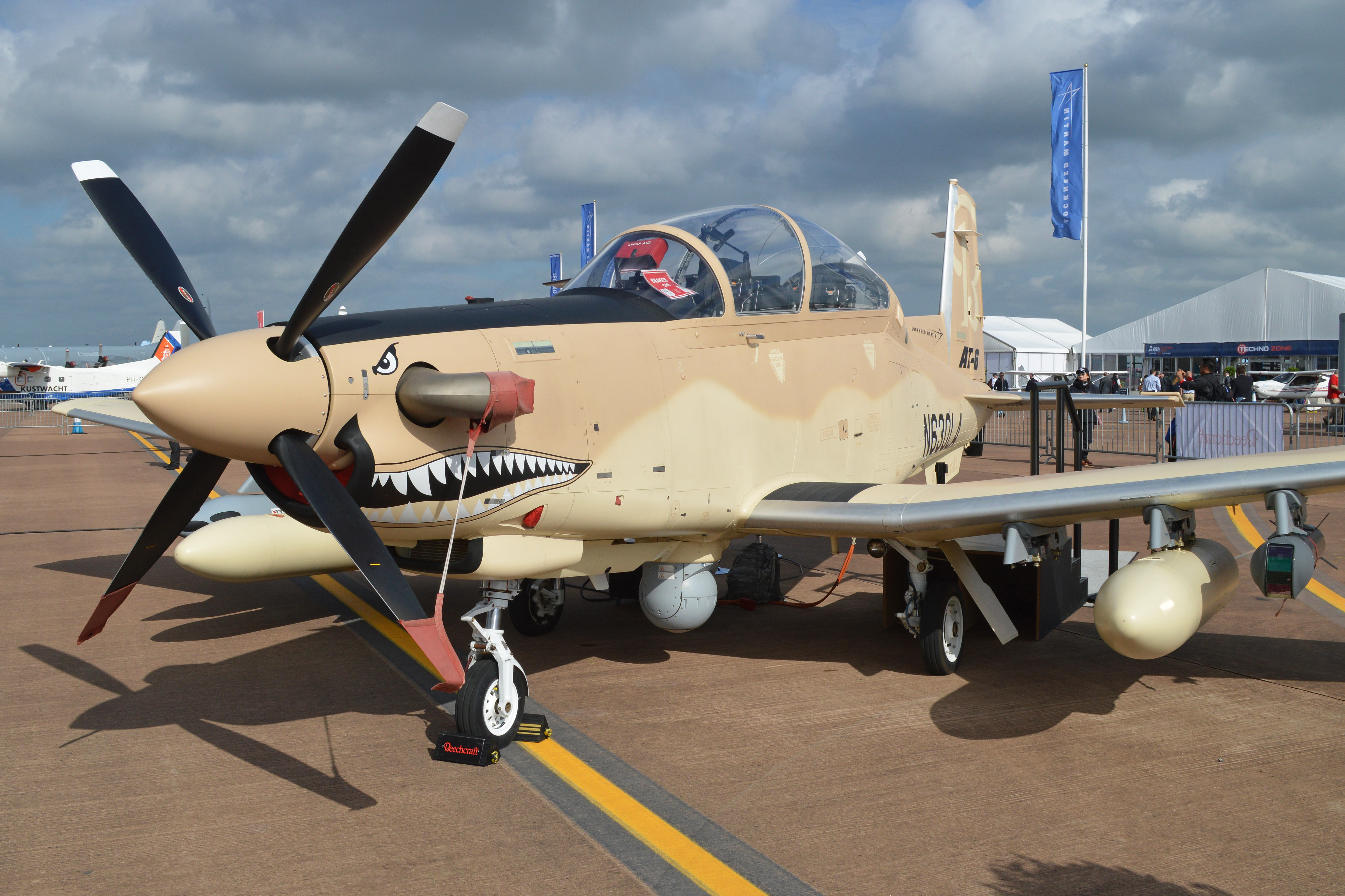 c/n AT-3. Built 2013 and operated worldwide as a demonstrator for this armed variant of the T-6 trainer. On static display at the 2016 Royal International Air Tattoo (RIAT), Fairford, UK. Friday 8th July 2016